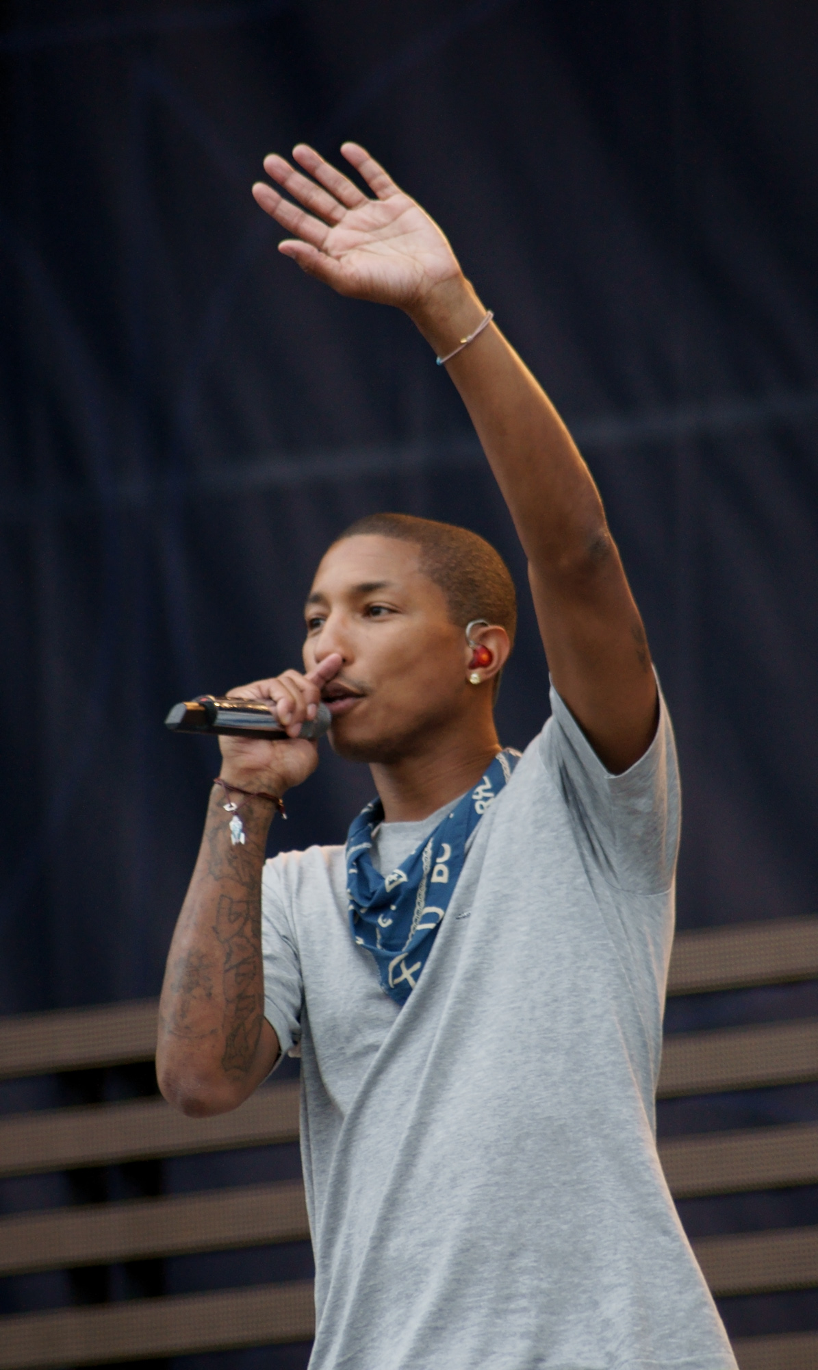 Pharrell Williams performing with N.E.R.D in Pori Jazz 2010.